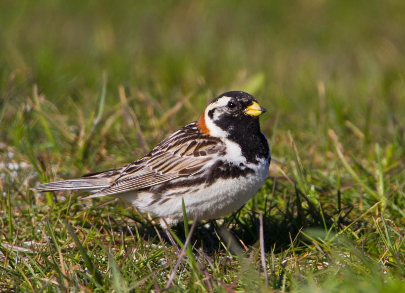 Lapland Longspur - Calcarius lapponicus - Sportittlingur